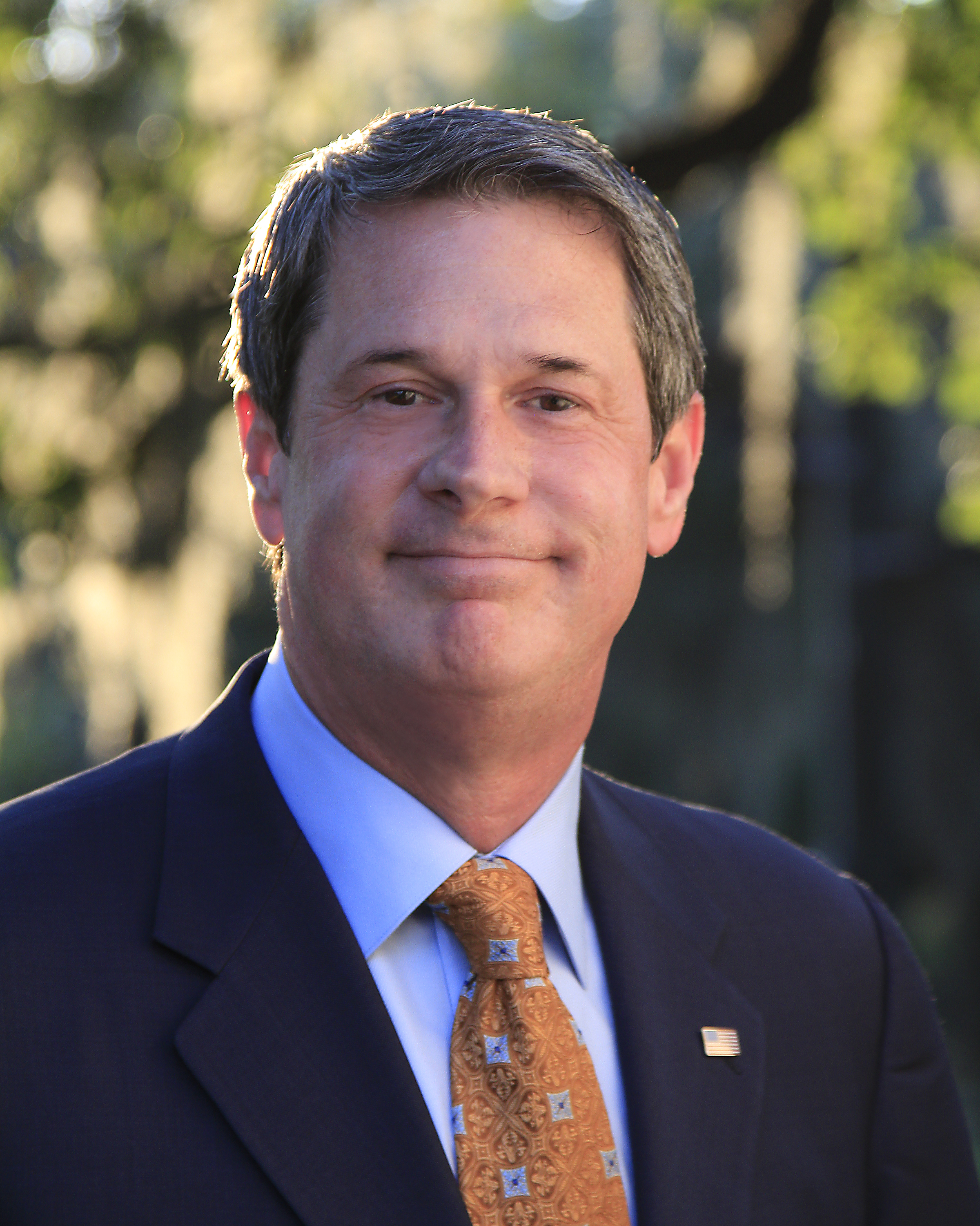 Republican Senator of Louisiana, David Vitter's Official 112th Congressional Portrait, 2011.